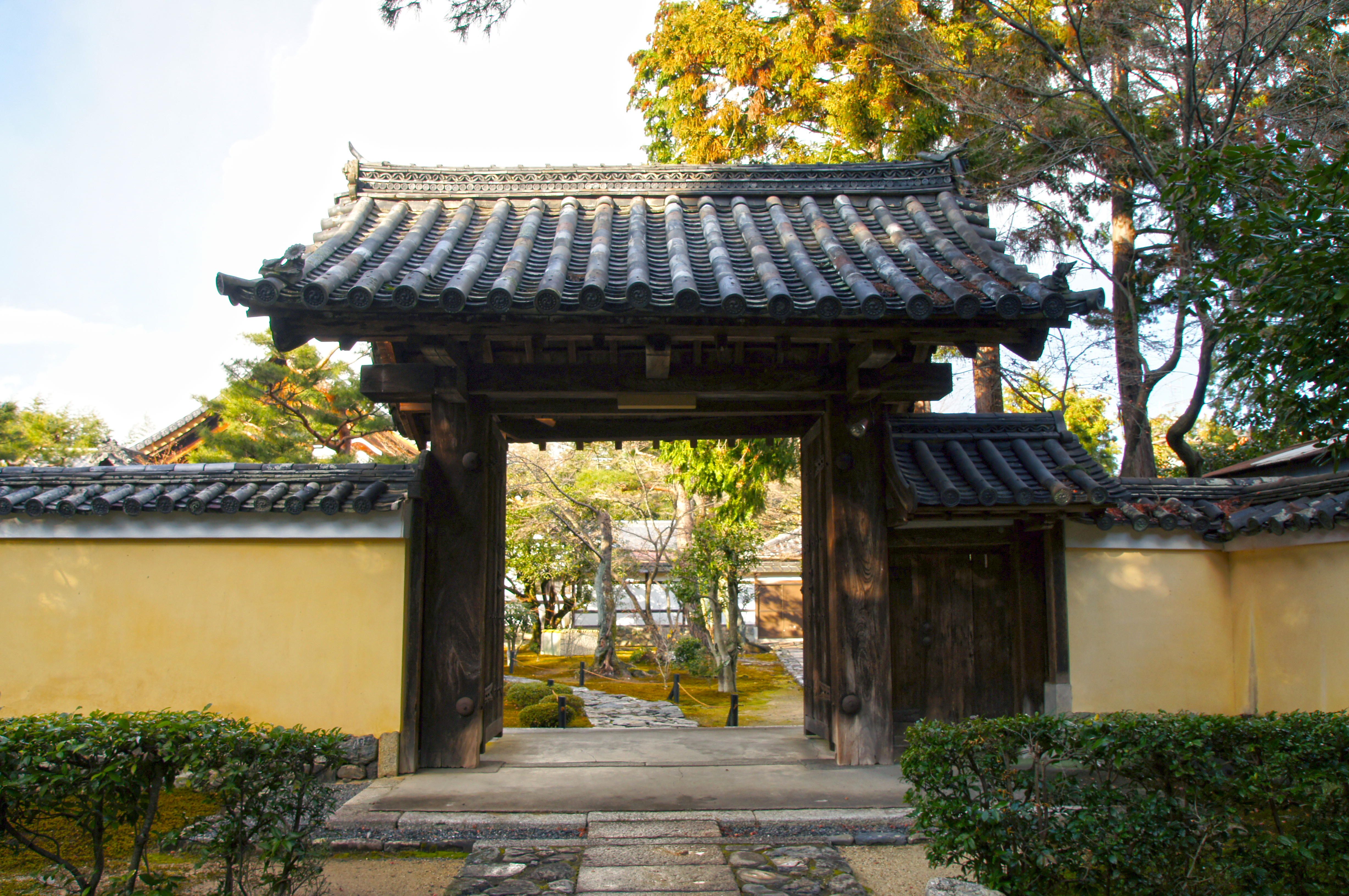 Rokuo-in in Kyoto, Kyoto prefecture, Japan.